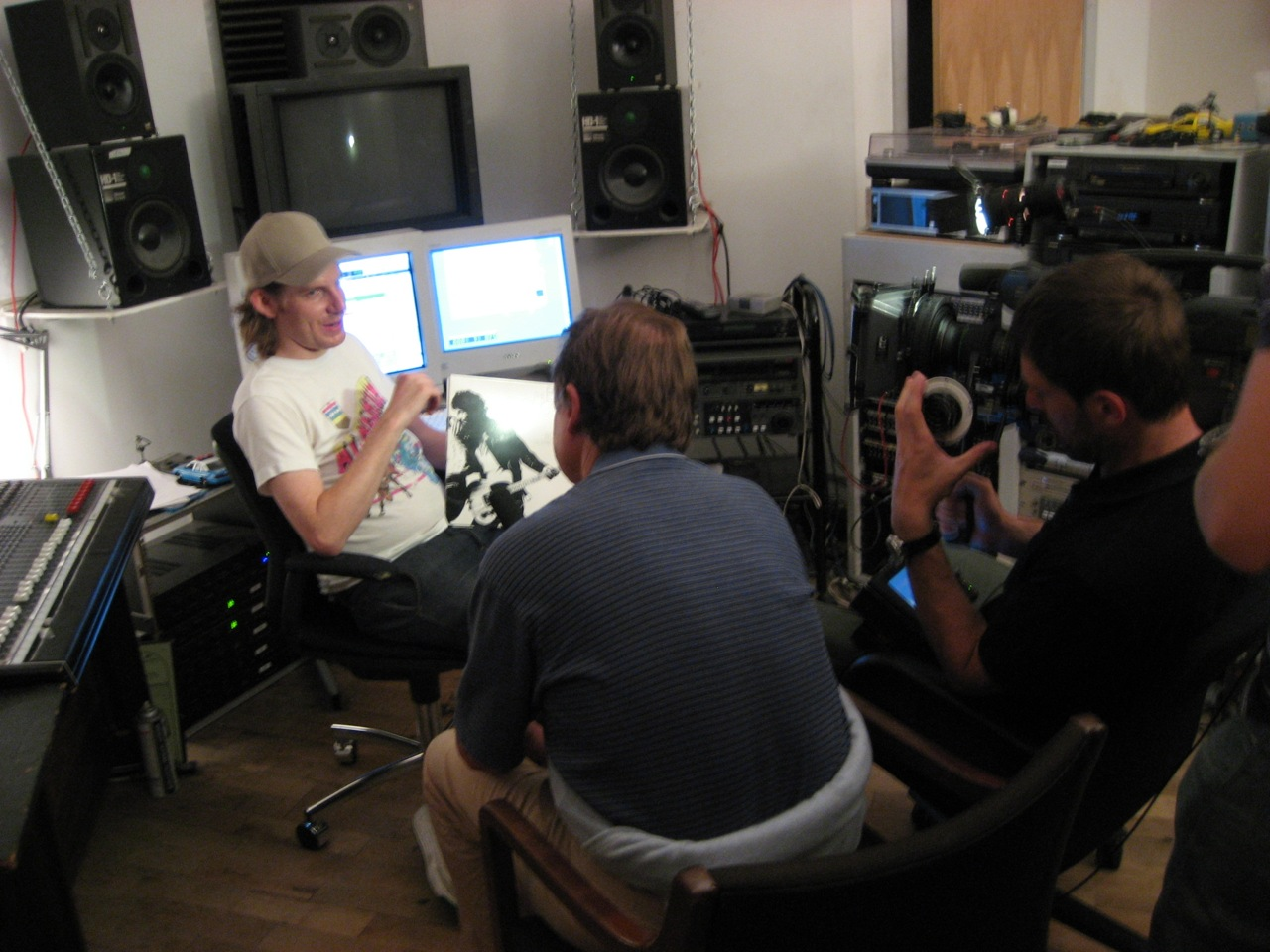 Cory Arcangel being interviewed